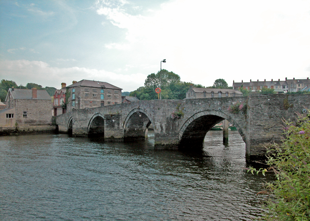 Bridge over the Teifi South of Cardigan Castle.